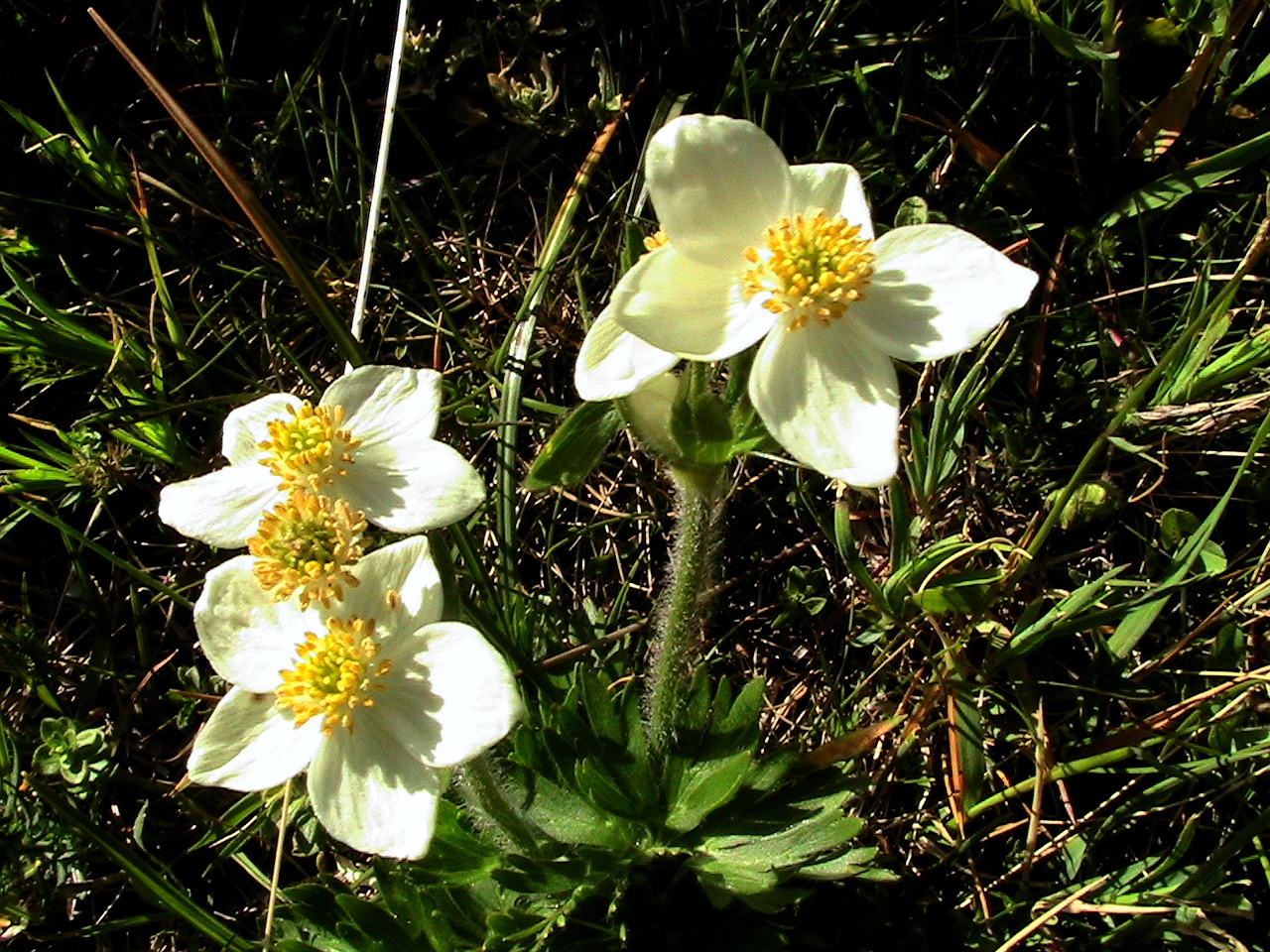 Anemone narcissiflora. In Cabdella (Pallars Jussà - Catalunya. To 2.145 m altitude